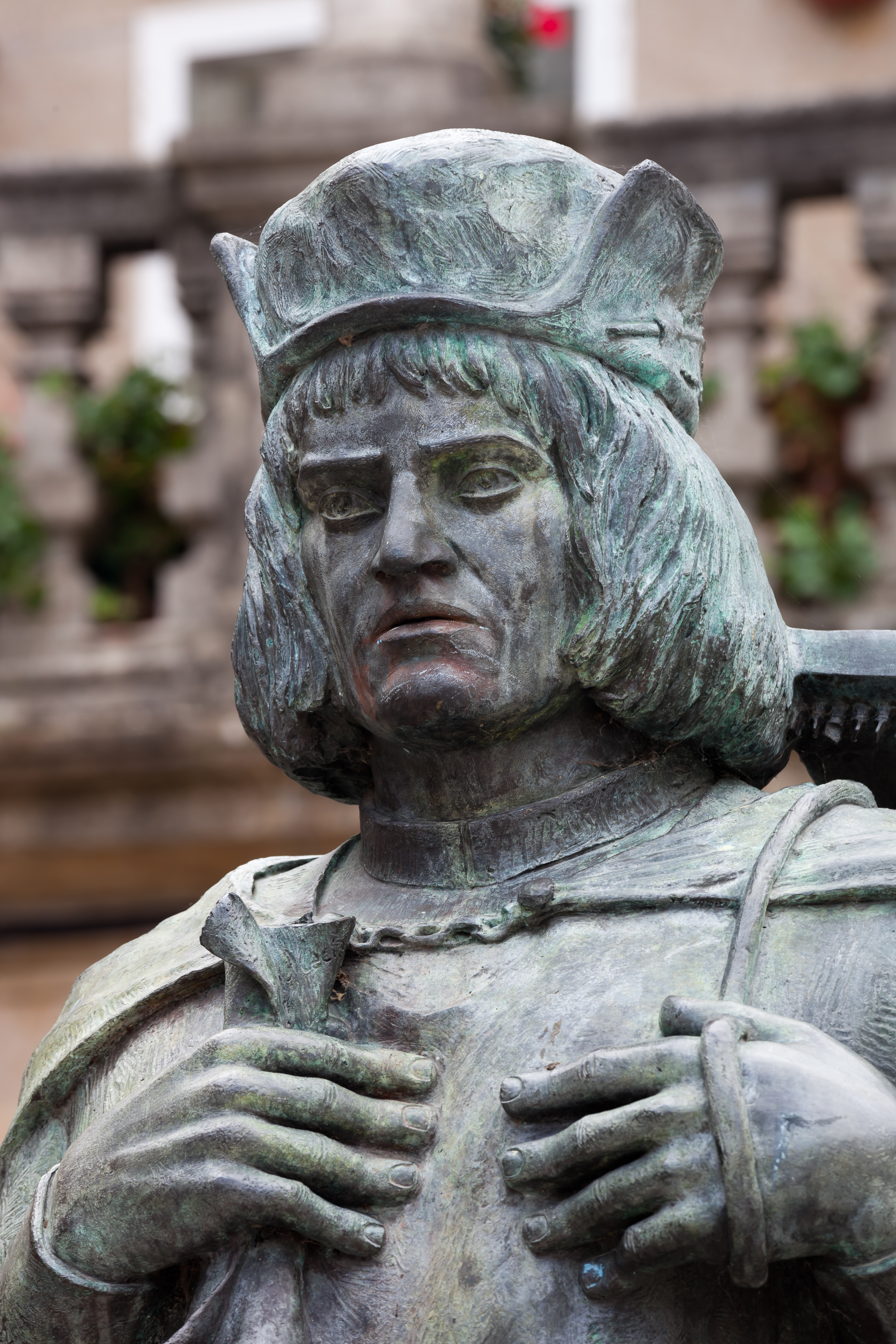 Sculpture by Ramón Conde of Macías, galician writer, in Padrón, Galicia, Spain (detail)